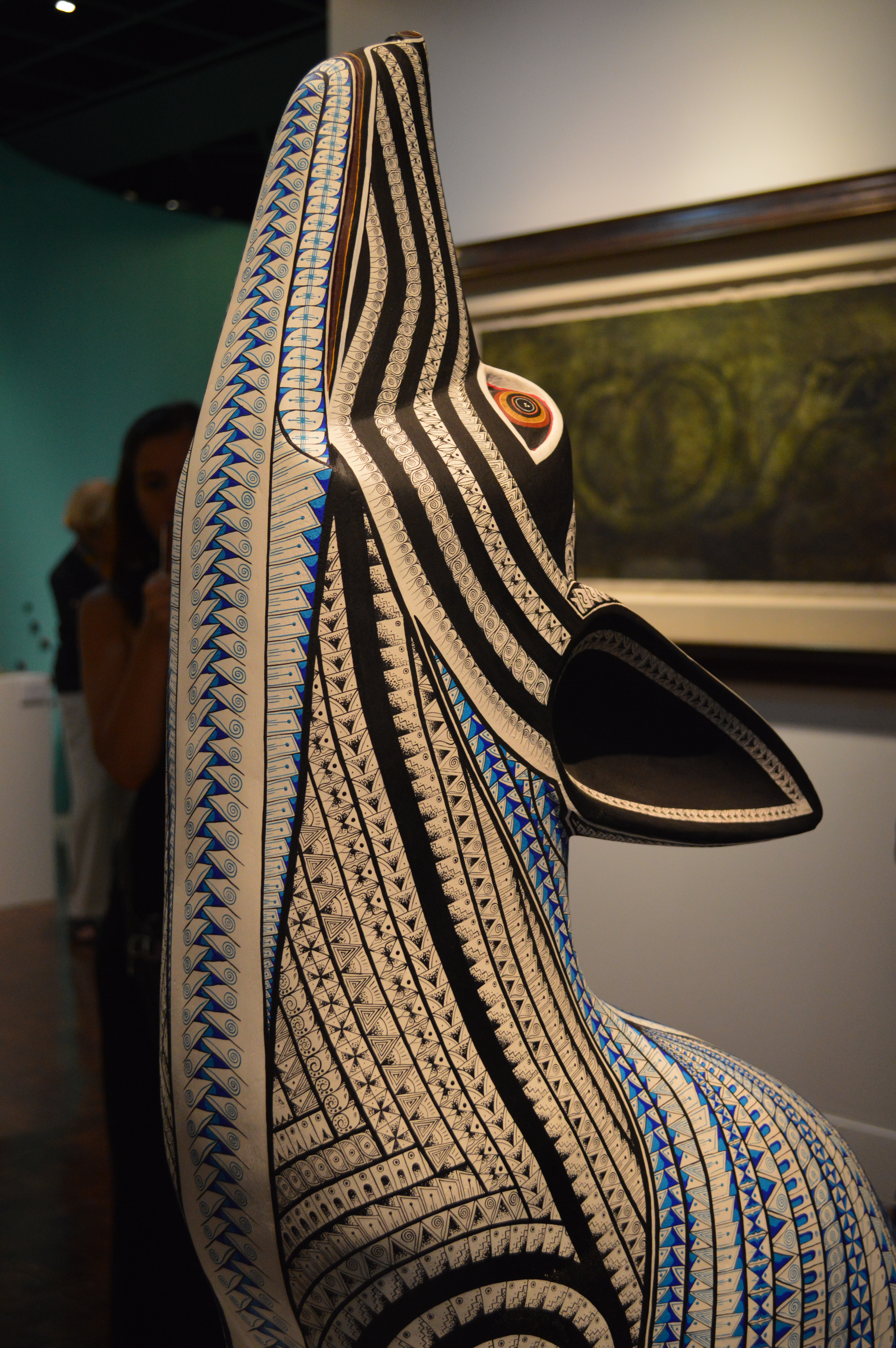 Head shot of coyote alebrije by Jacobo and Maria Angeles at the La Zoologia en le Arte Mexicano at the Museo de Arte Mexicano in Mexico City